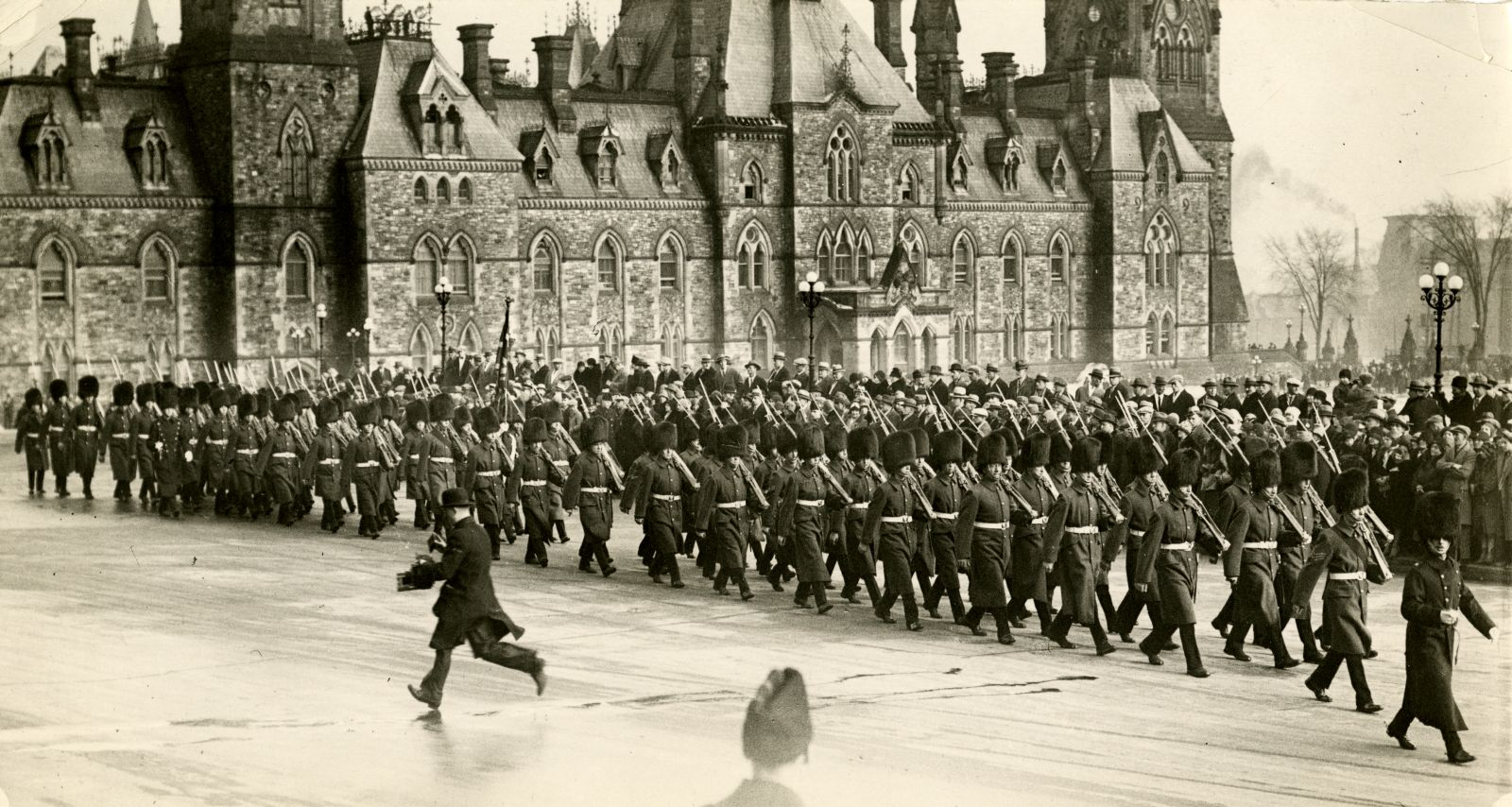 The Royal 22e Régiment (translated as the Royal 22nd Regiment), parading on Parliament Hill. Ottawa, Canada.